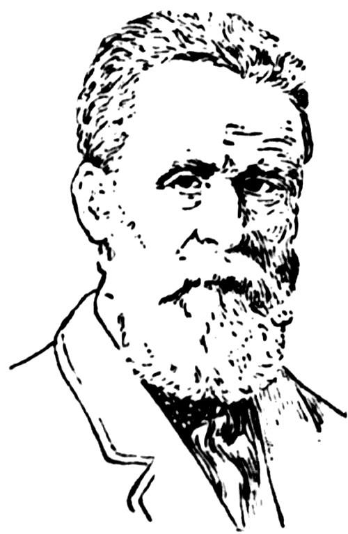 Nikiphoros Lytras (1832-1904), famous greek painter, drawing, selfportray